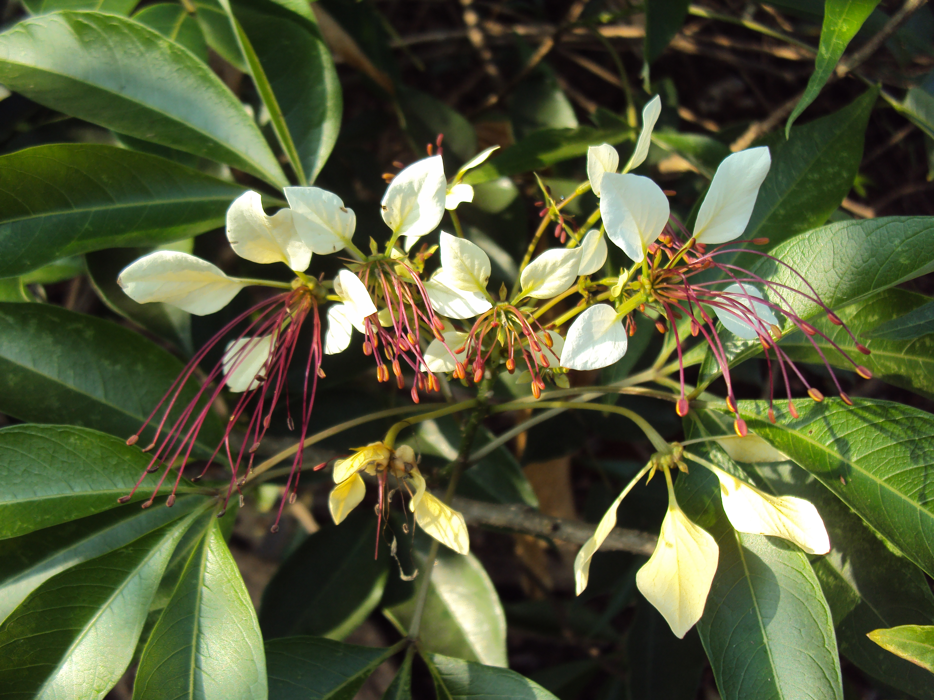 Crateva religiosa